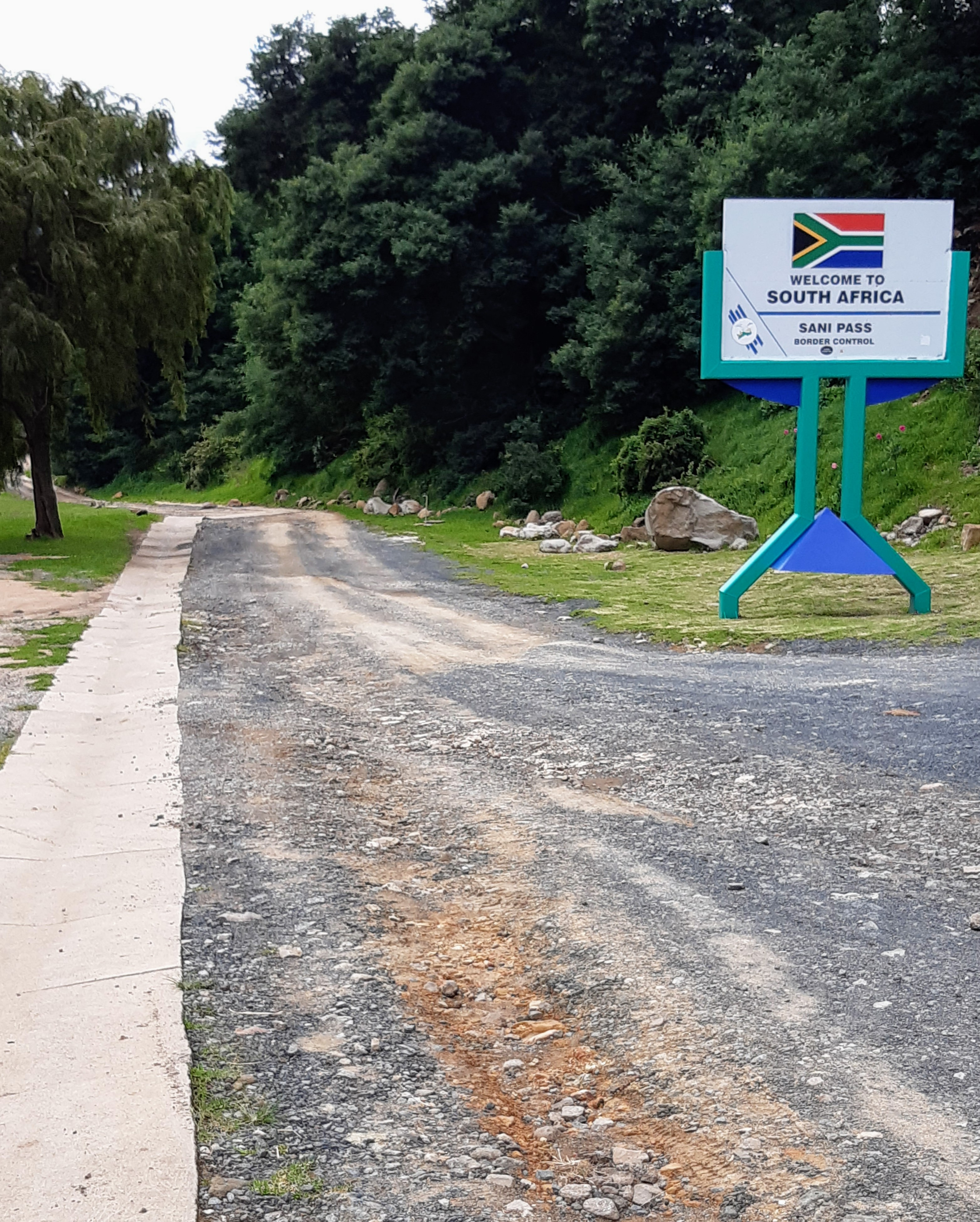 Gravel road, dirt road, border post, south-african flag, signpost This is an image with the theme "Africa on the Move or Transport" from: Lesotho